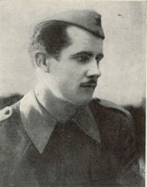 Ivan Turšič-Iztok (1922-1944), Slovene partisan and national hero